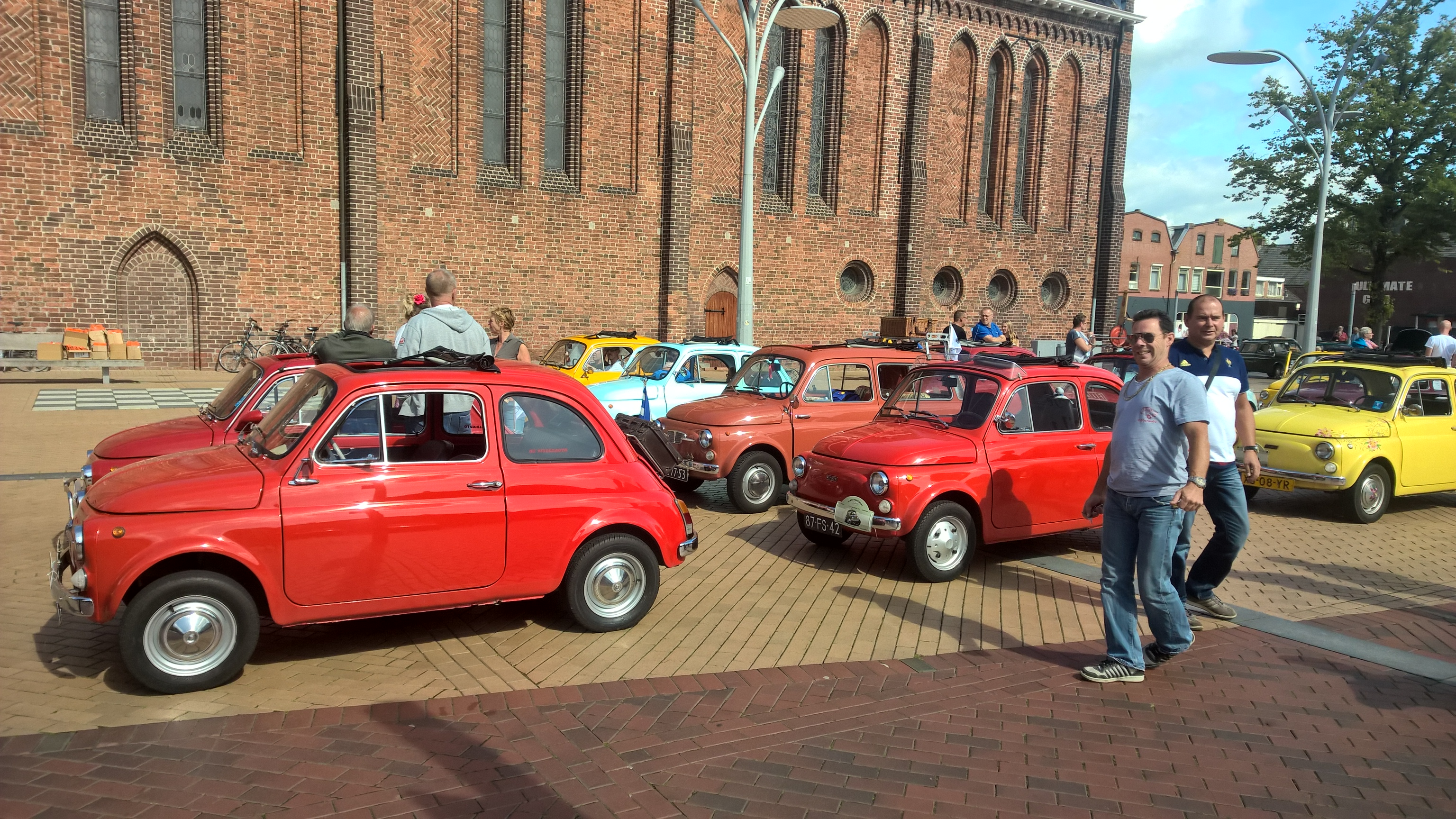 Some old-style automobiles on display.